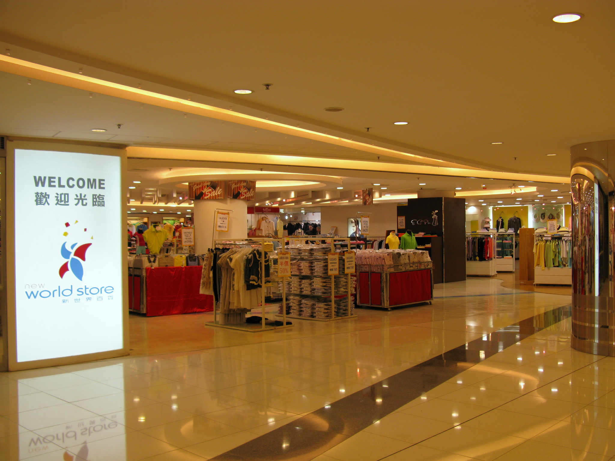 A New World Department Store located at New World Centre Shopping Mall